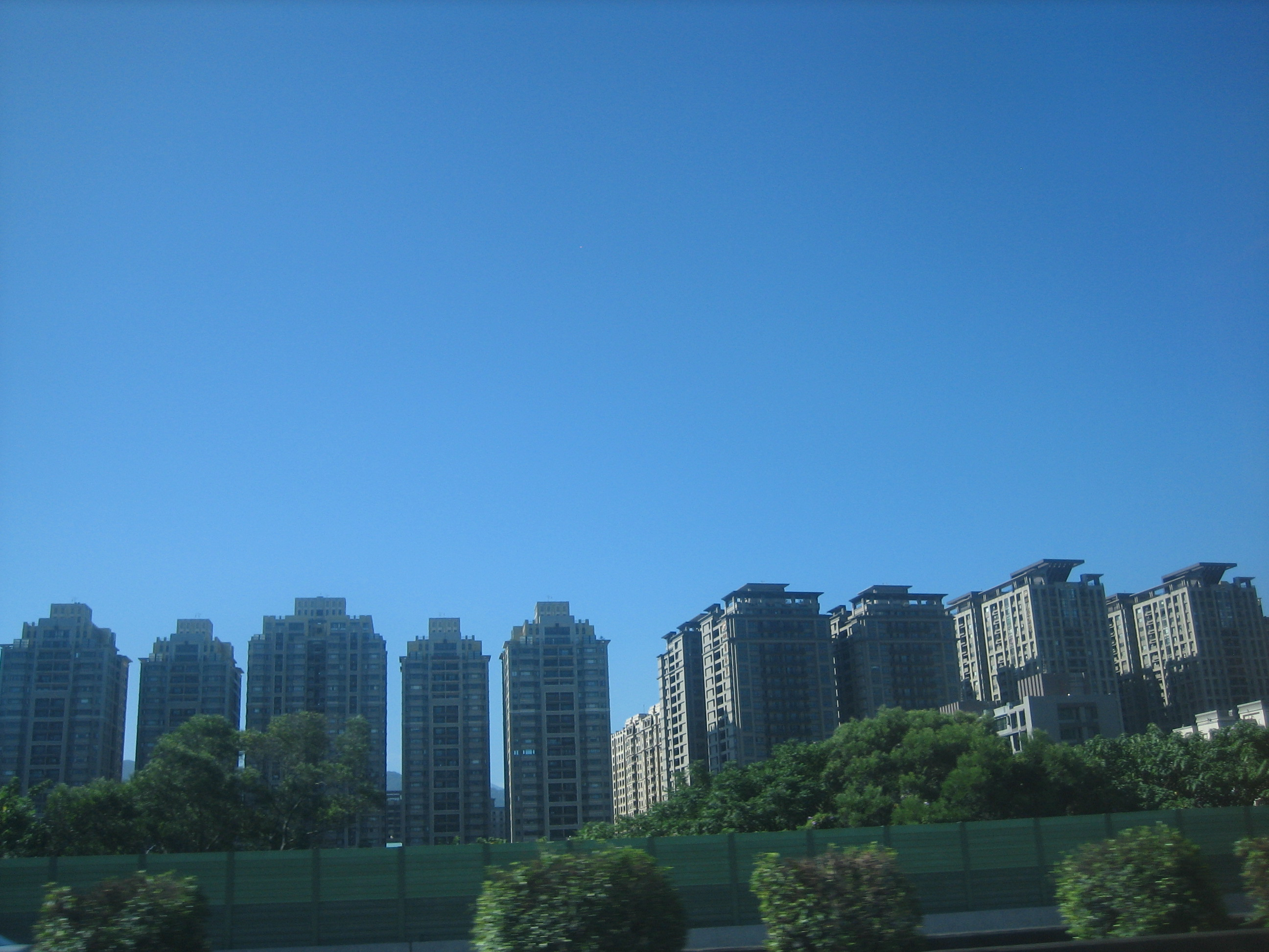 Sanchong district, Taiwan